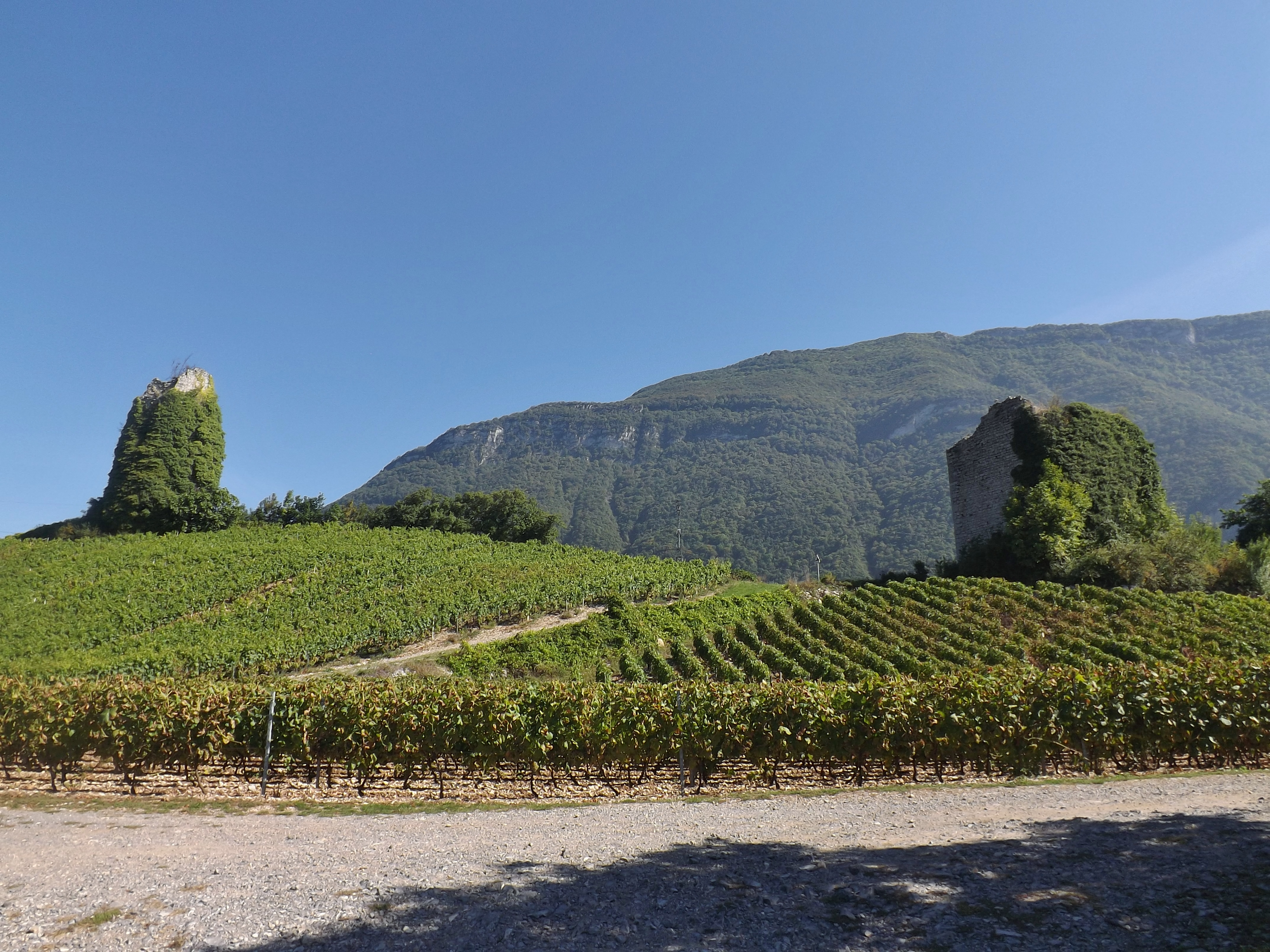 Sight of what may be tour de Montagny and tour de Verdun towers, in the vineyards of Chignin, near Chambéry in Savoie, France.